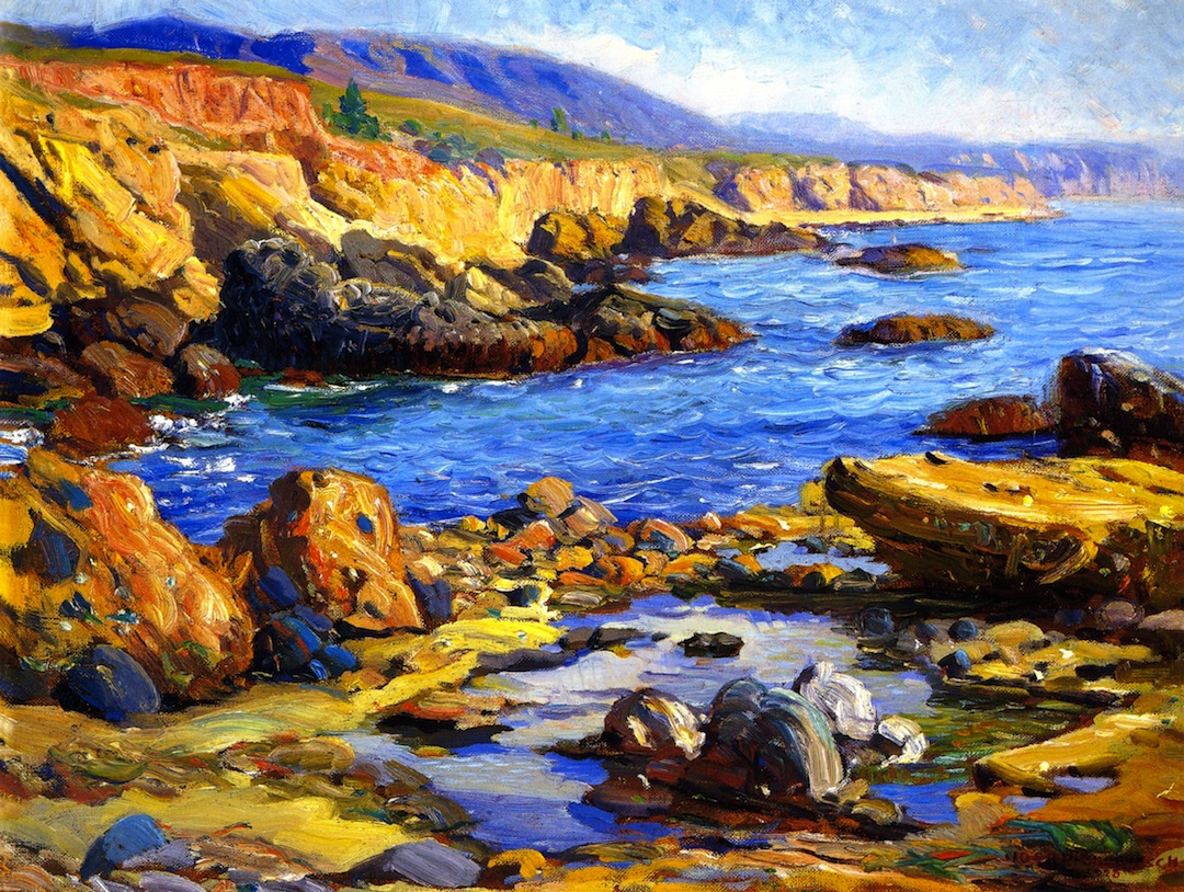 Laguna Shore Line